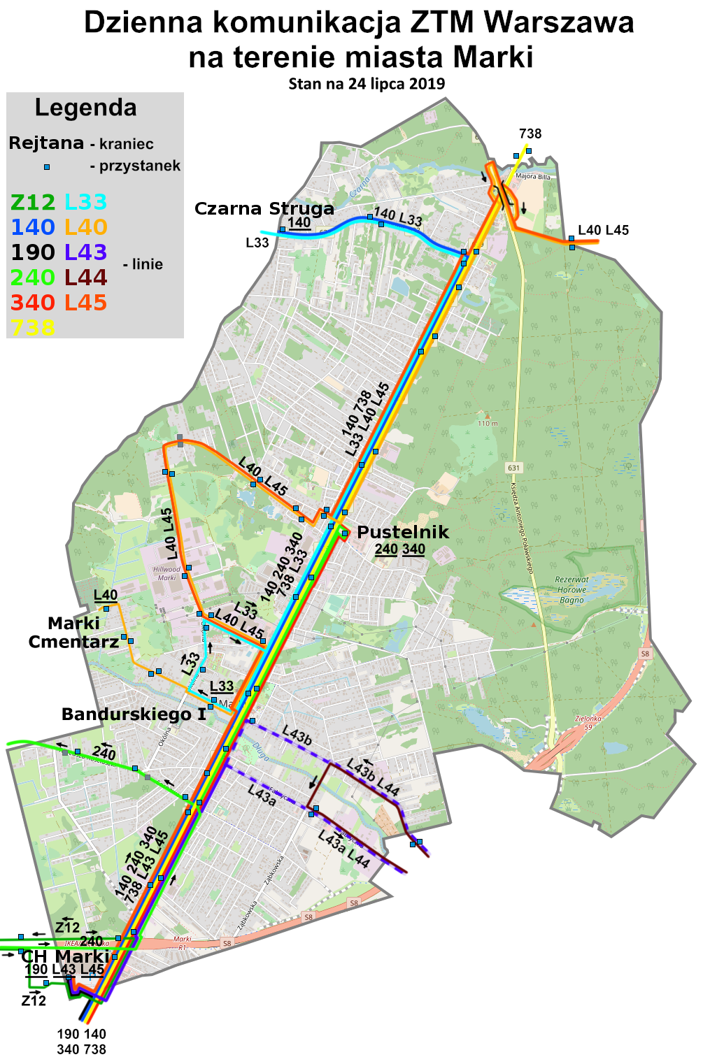 Map of public transport (during the day) of ZTM Warszawa system in Marki, Masovian Voivodeship, Poland as of 24.07.2019 This map of Marki, Poland was created from OpenStreetMap project data, collected by the community. This map may be incomplete, and may contain errors. Don't rely solely on it for navigation.